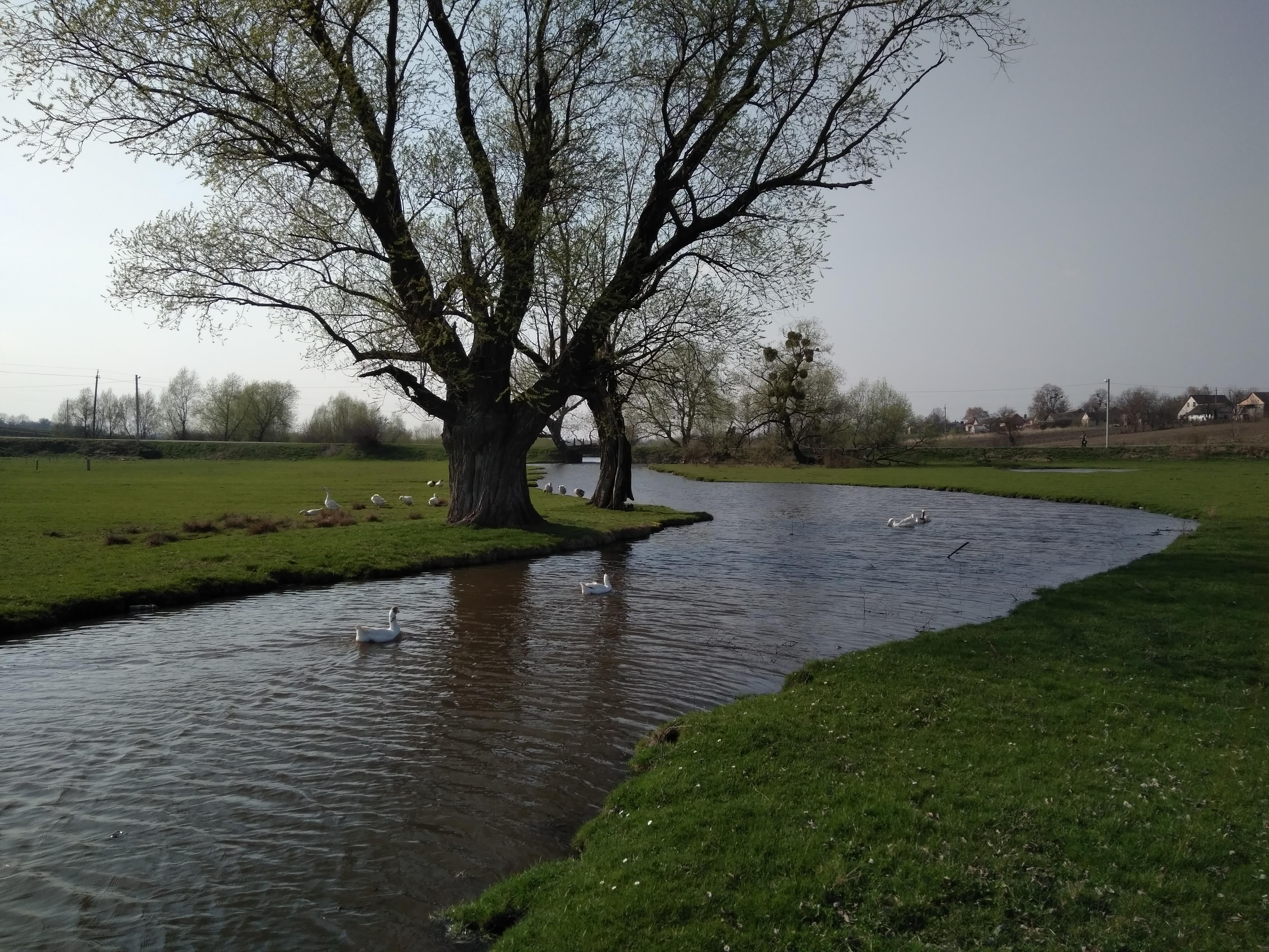 River in Velyka Omeliana